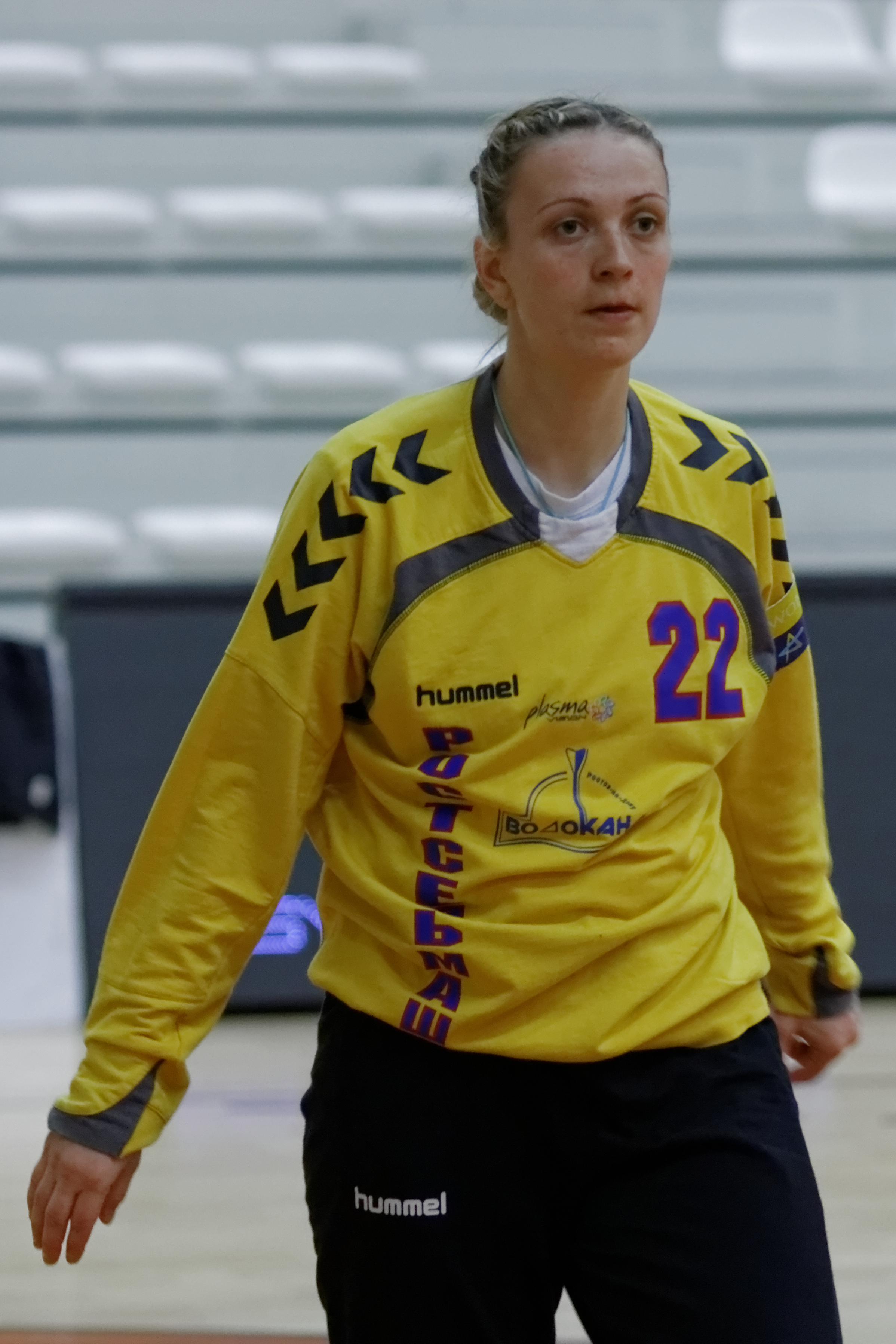 Semi-final EHF Cup Winners' Cup. Issy Paris Hand - Rostov-Don , 5 April 2013. Sonja Barjaktarovic (Rostov Don).